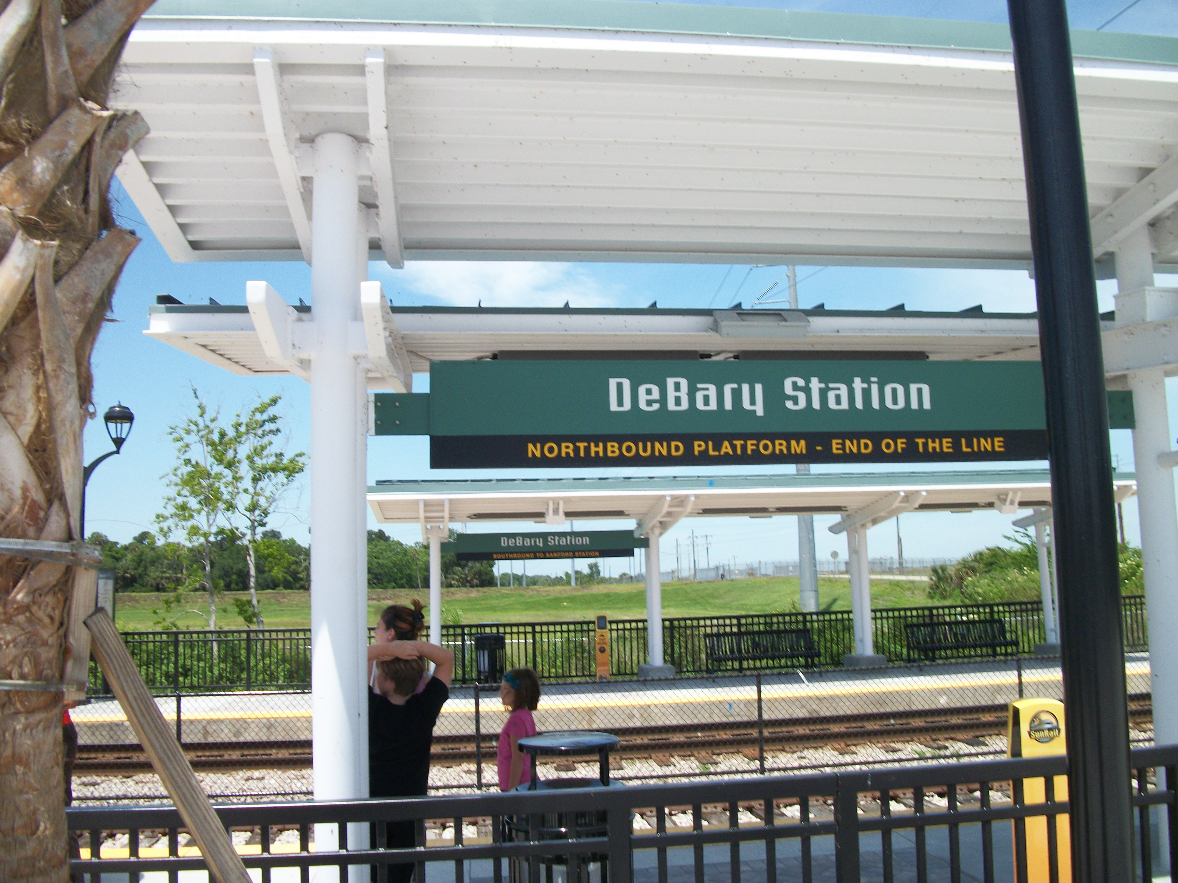 Signs for the platforms of the DeBary SunRail station, in DeBary, Florida. One sign claims this is the end of the line, however with ridership exceeding the levels that were expected, this is guaranteed not to be the end of the line for very long.